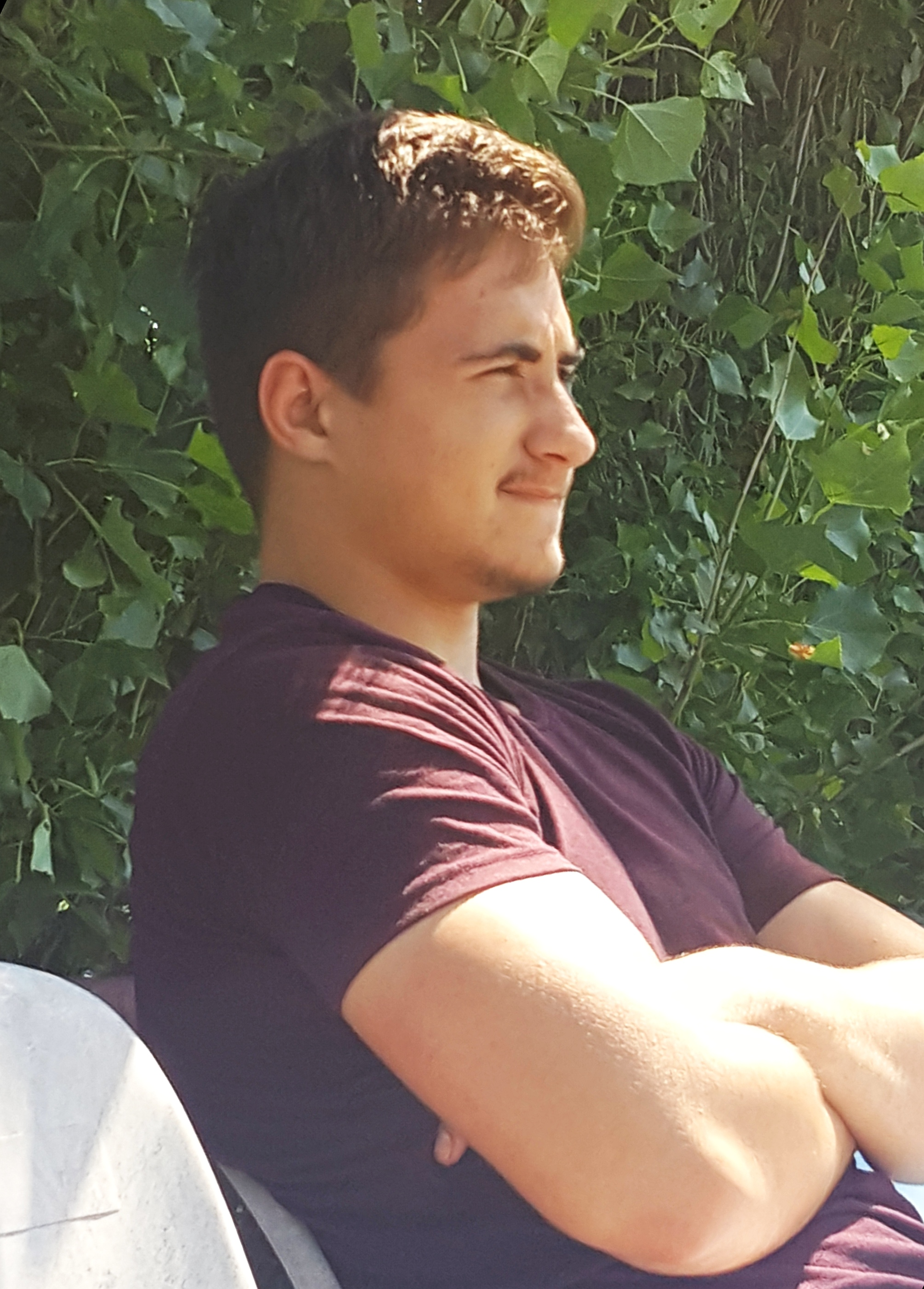 French rugby union football player Julien Bartoli, player of CSA Steaua București rugby club seen attending a match between his team and rivals Timișoara Saracens in Round 11 of 2017-18 Romanian Rugby SuperLiga in May 208